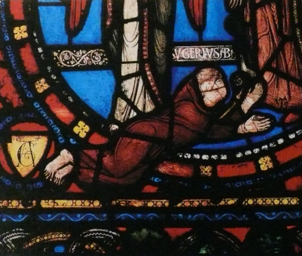 Suger de Saint-Denis